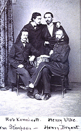 A photo of four members of the Megatherium Club. Standing L-R: Robert Kennicott and Henry Ulke. Seated L-R: William Stimpson and Henry Bryant. Photo presumed to be Ulke Brothers, 1111 Pennsylvania Avenue, NW, Washington, D.C. approximately 1864.